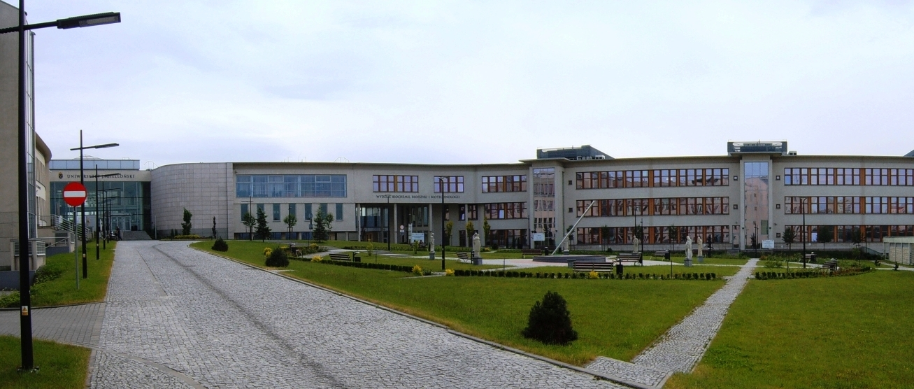 Campus of Jagiellonian University; Kraków